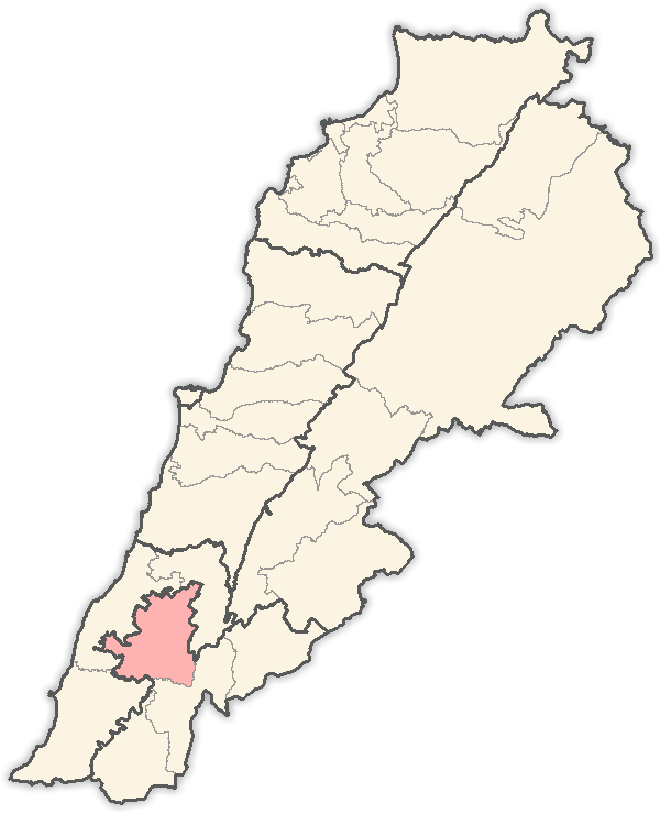 Map of districts in Lebanon, highlighting the Nabatiye District